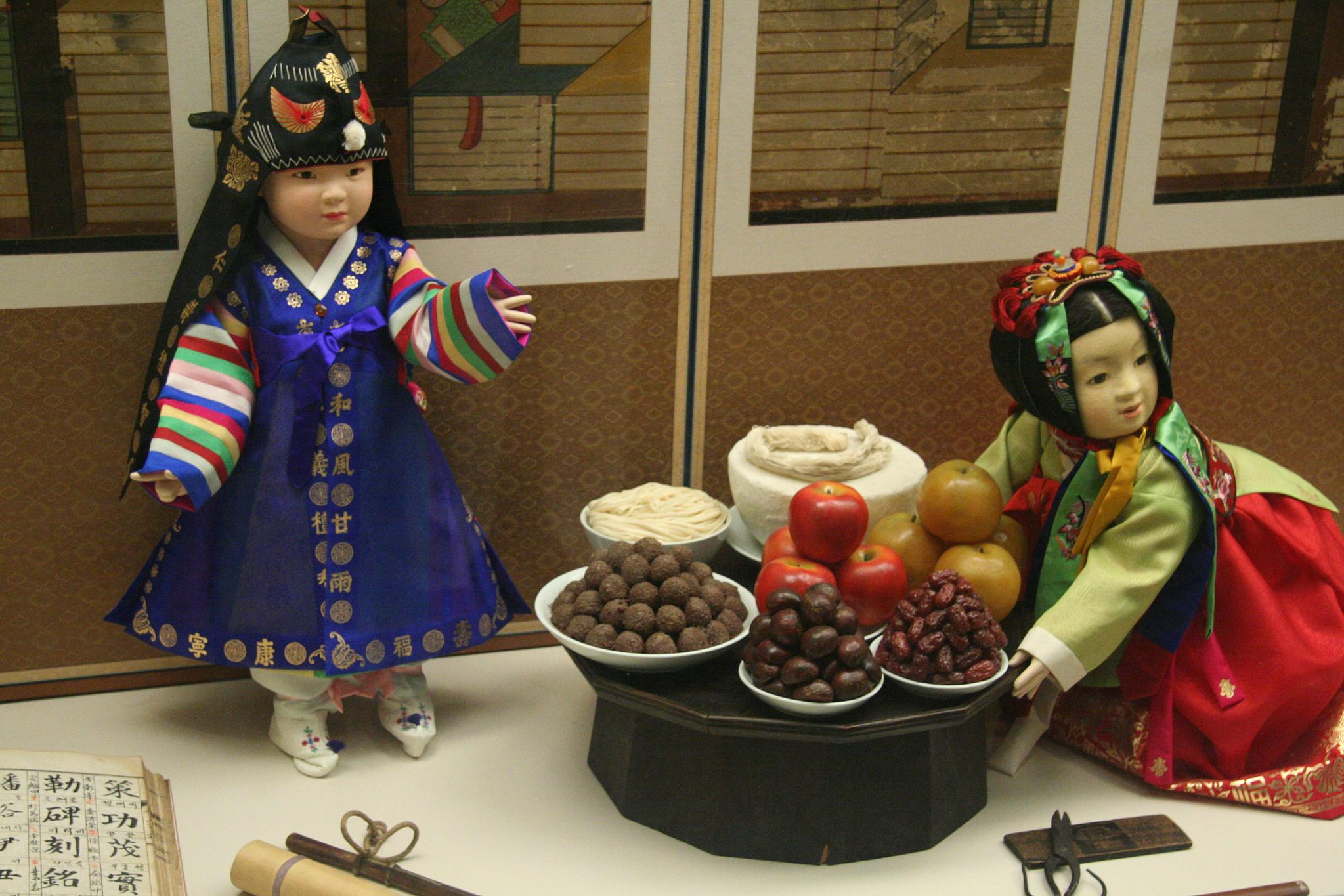 The models of Korean children during the Joseon dynasty who wear hanbok, Korean traditional clothing are displayed at The National Folk Museum of Korea, Seoul, South Korea. The model of a young boy wears the jeonbok (long sleeveless vest) over the obangjang durumagi (a colorful overcoat) and baji (baggy trouser). The model also wears hogeon(headgear embroidered with a tiger pattern) on his head, and "tarae beoseon" (embroidered socks) on his feet. The model of a young girl wears the dangui (jacket for special occasion) and "seuran chima" (geumbak or gold leaf printed skirt) and "gulle" on her head.